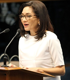 Risa Hontiveros during her first privilege speech last August 1, 2016